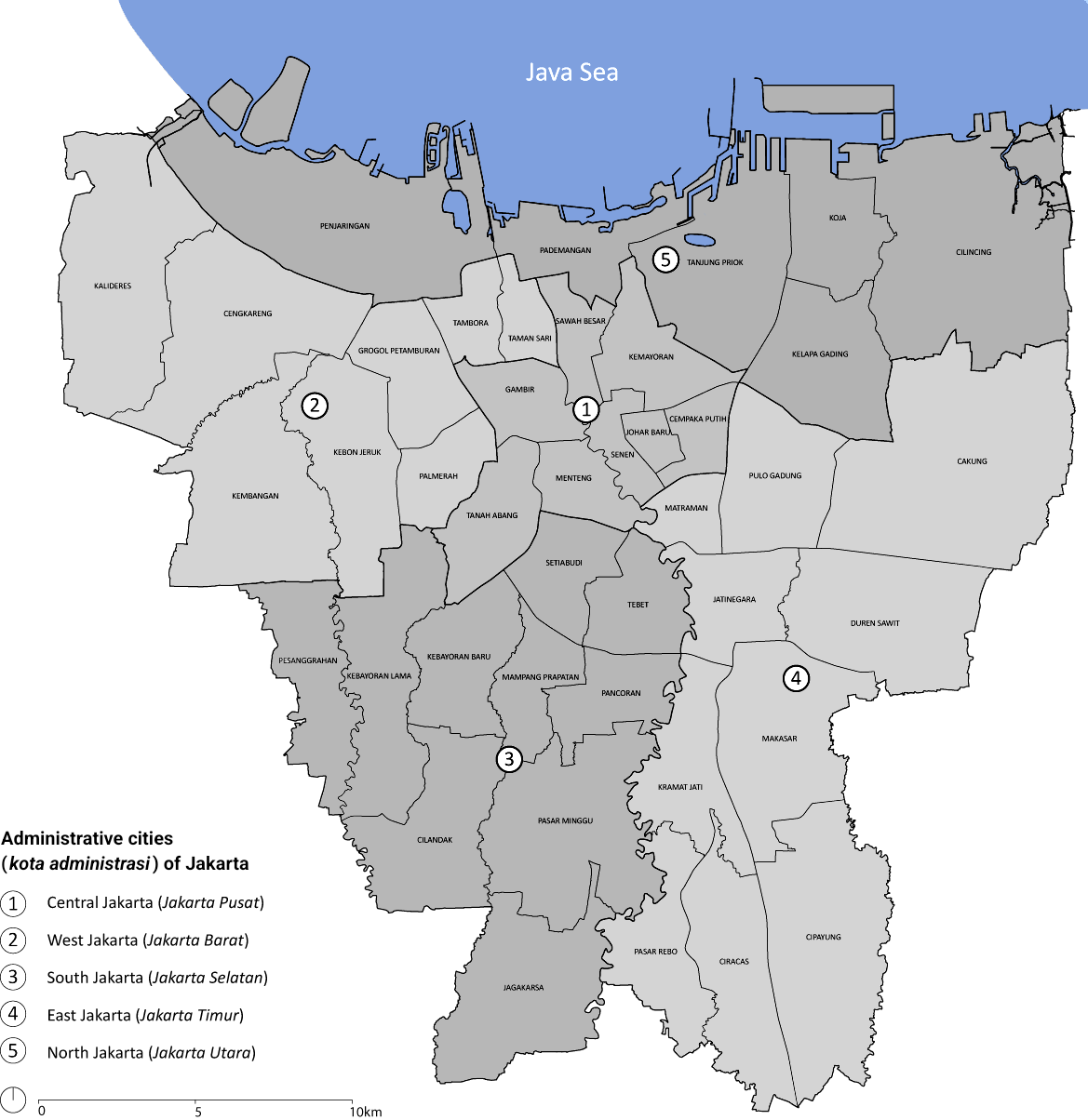 Map of City/Kotamadya of Jakarta with its Subdistrict/Kecamatan. The cities are color-coded (in the map)